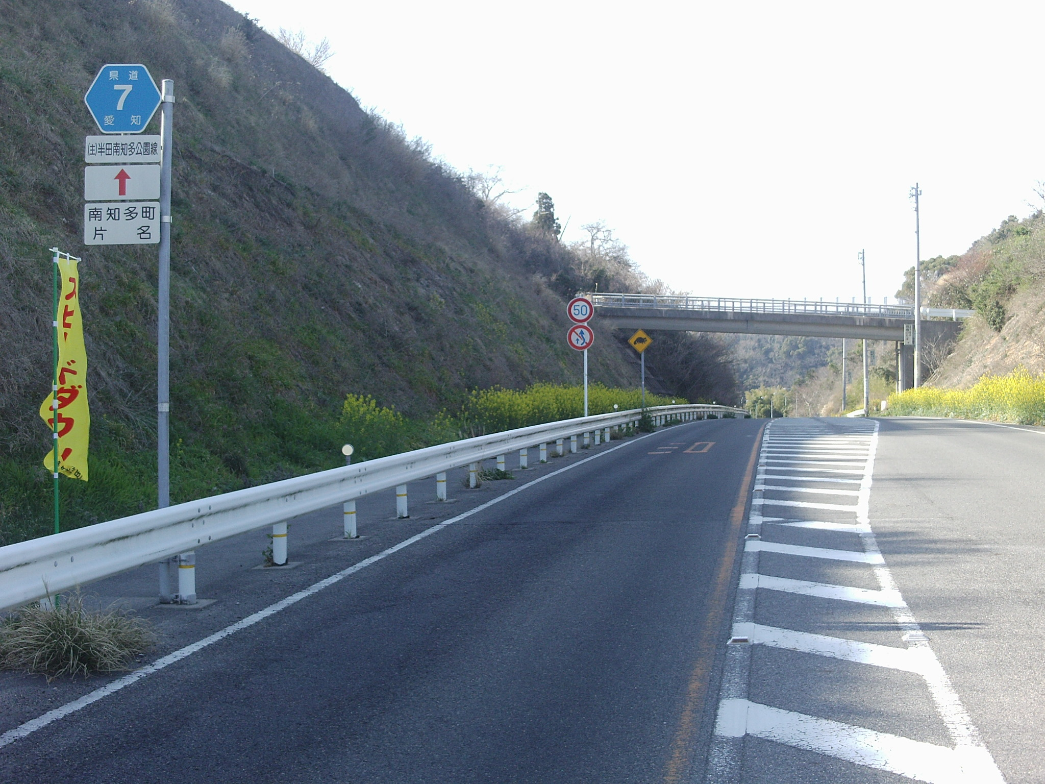 Aichi prefectural road No.7 in Katana Minamichita-cho Chita-gun, Aichi.